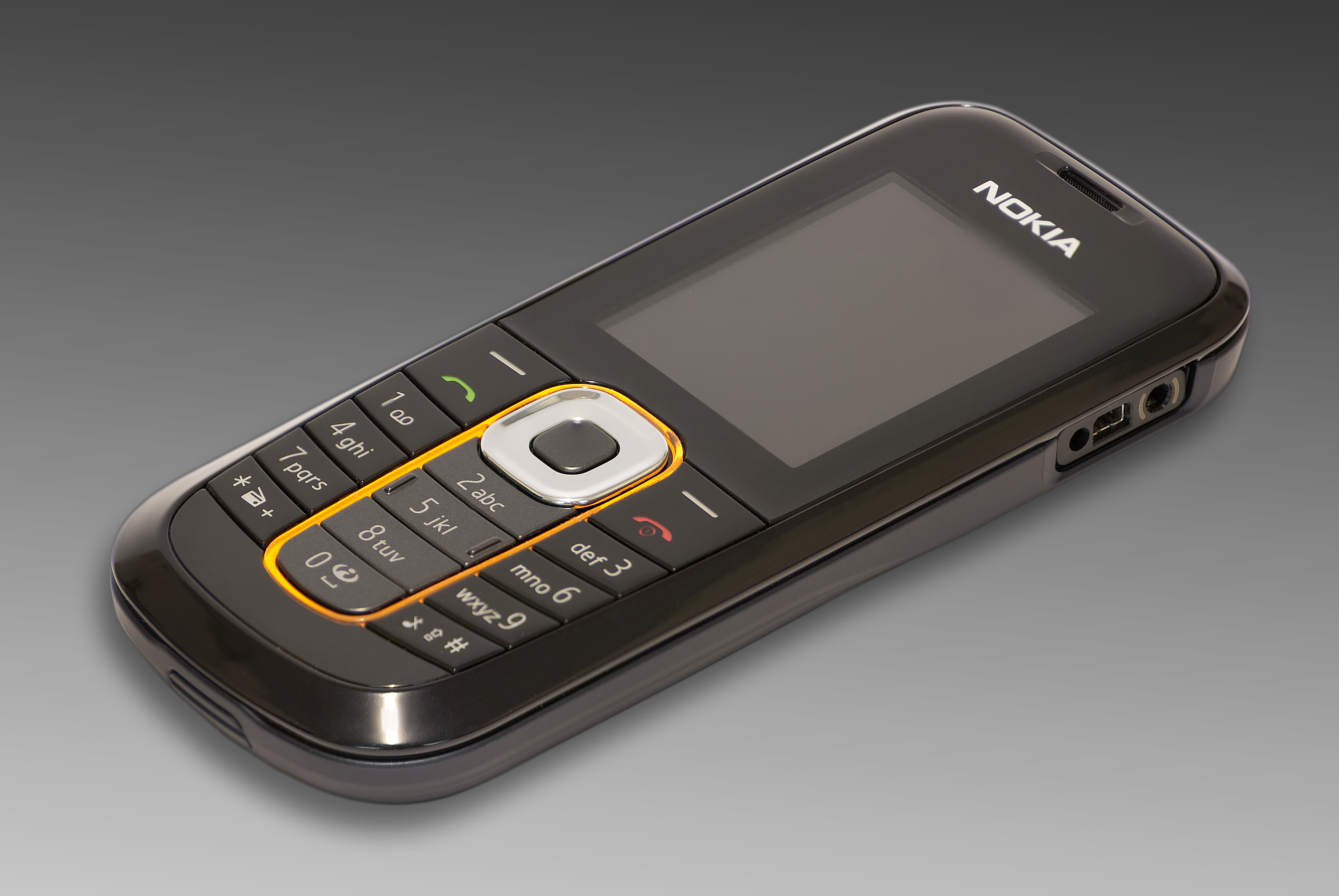 Image of a Nokia 2600 Classic Mobile Phone. A focus stacked image from 4 exposures and merged in Photoshop CS4.